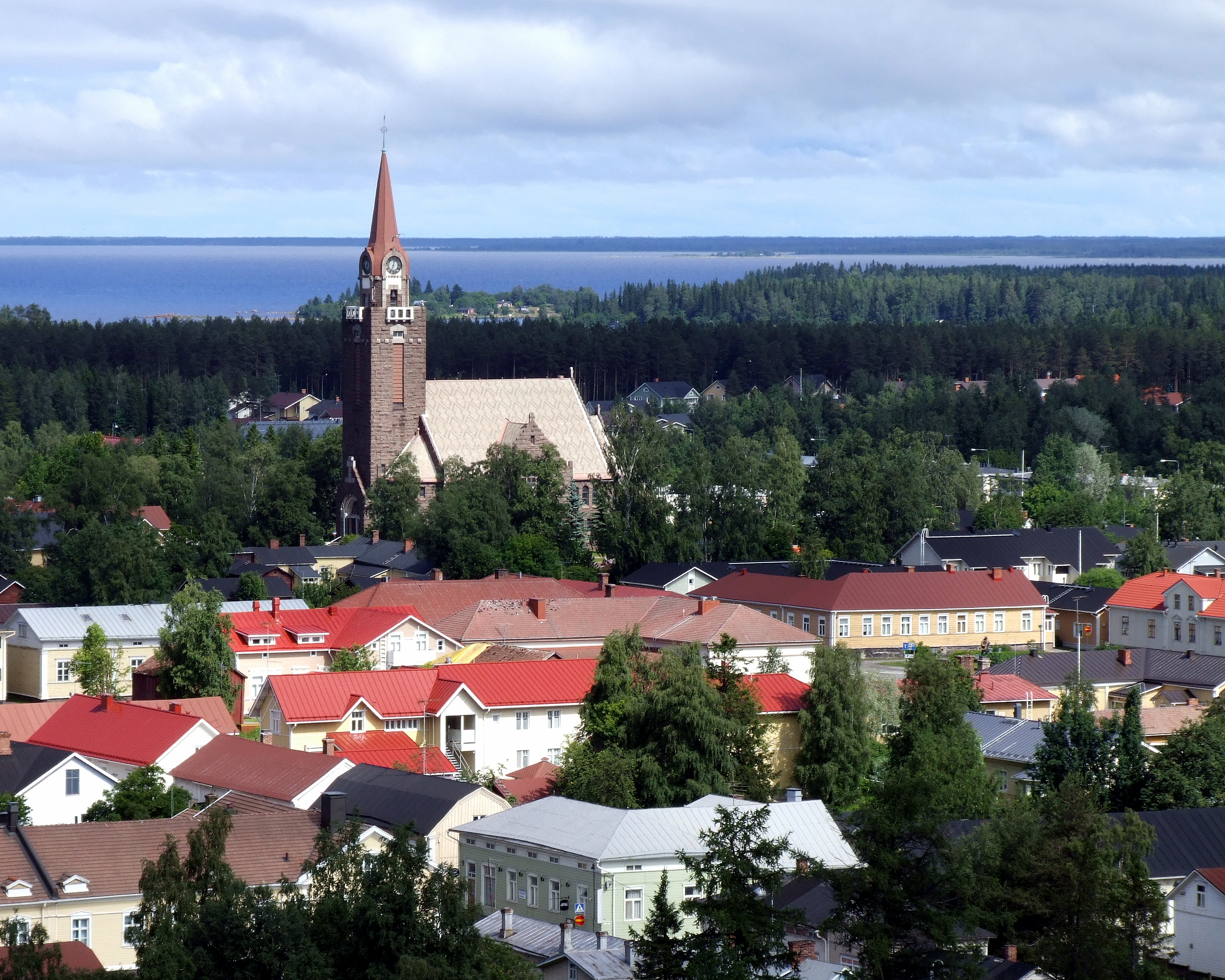 View to Old Raahe, Finland.